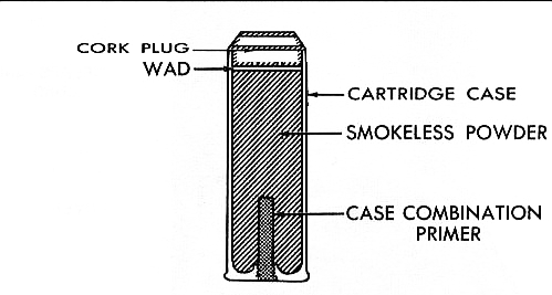 5"/38Cal Clearing Charge. Cropped and cleaned portion of image scanned from source.